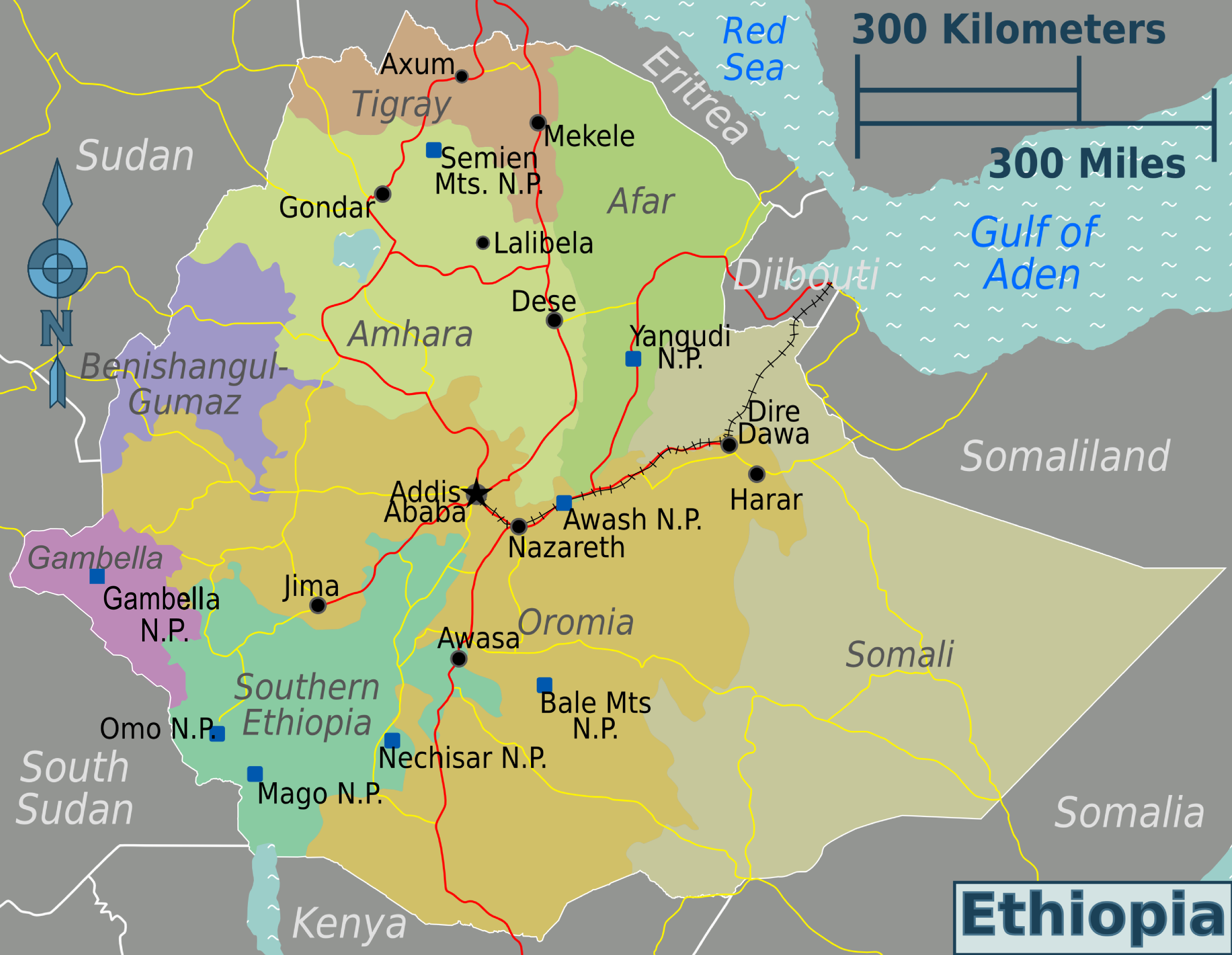 Ethiopia regions map for use on Wikivoyage, English version